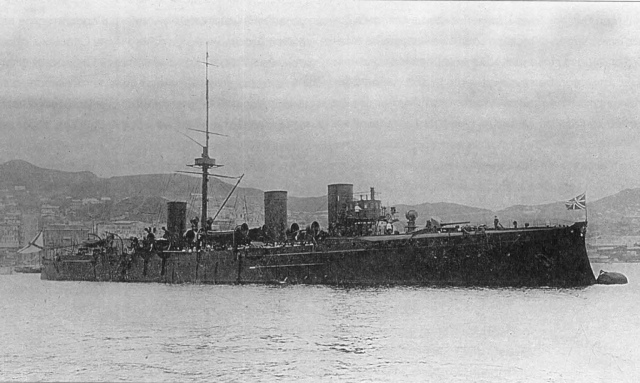 Крейсер Жемчуг в Шанхае, 1913 год